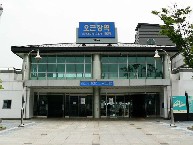 KORAIL Ogeunjang Station